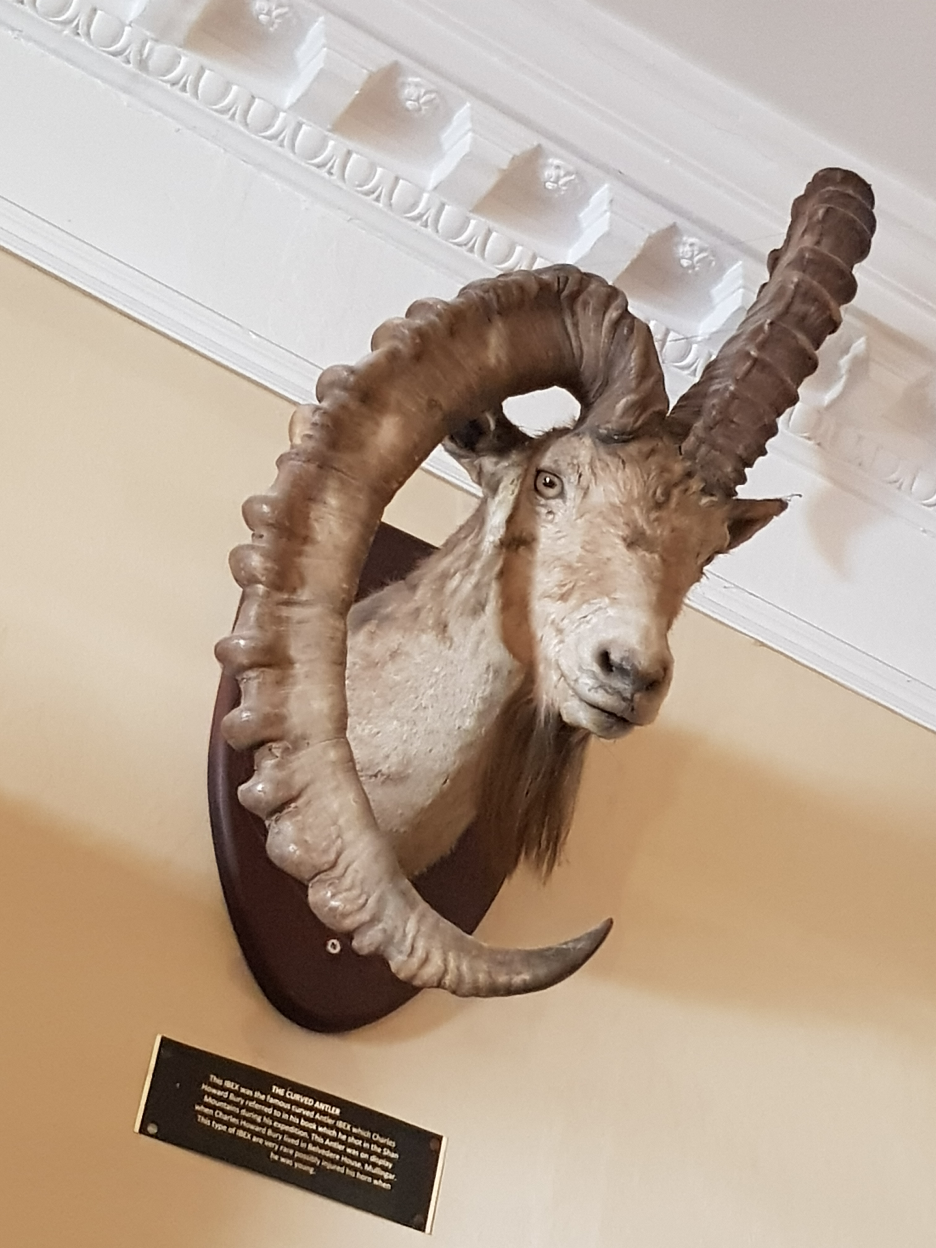 This ibex was the famous 'curved antler' which Charles Howard-Bury referred to in his book as he shot it in the Tien Shan Mountains during his expedition in 1921. This antler was on display when Howard-Bury lived in Belvedere House, Mullingar. This type of ibex is very rare and the antler deformity is possibly a result from an injury when the animal was young. Photographed in the Greville Arms Hotel museum.